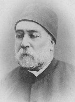 Mahmud Nedim Pasha (c. 1818-1883) Grand Vizier of the Ottoman Empire